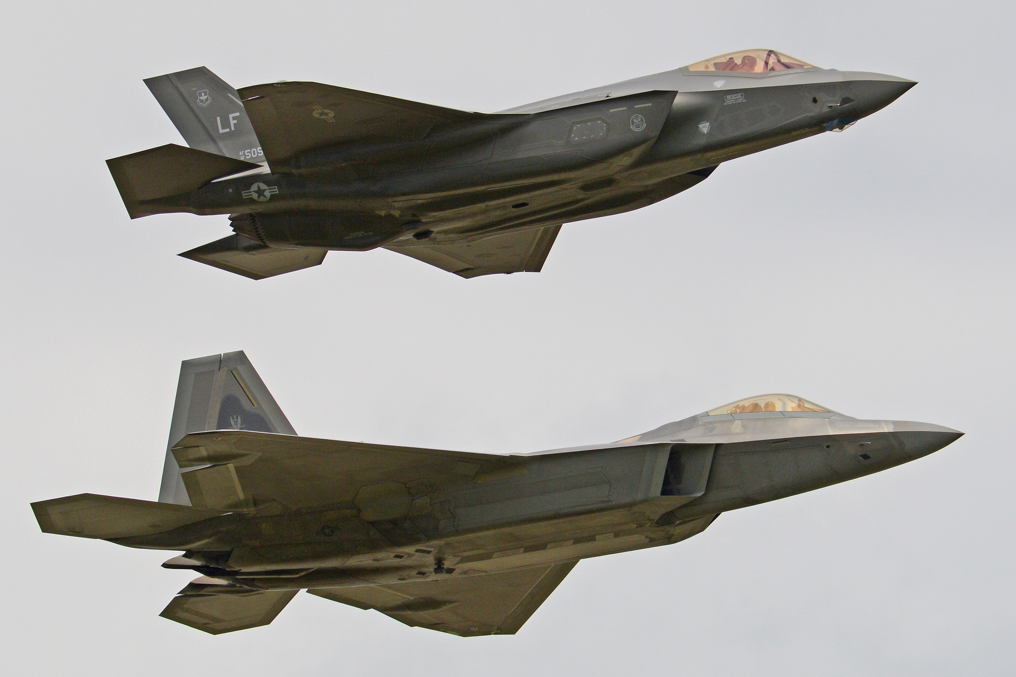 Cutting edge fighter formation! Above is Lockheed-Martin F-35A Lightning II '12-5052', c/n AF-63, operated by the 61st Fighter Sqn, part of the 56th Fighter Wing based at Luke AFB, Arizona. Below is Boeing F-22A Raptor '09-191', c/n 645-4191, operated by the 94th Fighter Sqn, part of the 1st Operations Group based at Langley AFB, Virginia. Seen together at the 2016 Royal International Air Tattoo, Fairford, UK. 08-7-2016